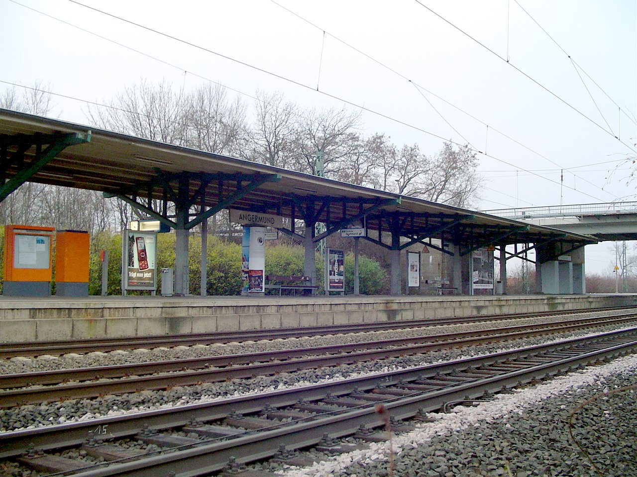 Train stop in Düsseldorf-Angermund (S-Bahn), Germany